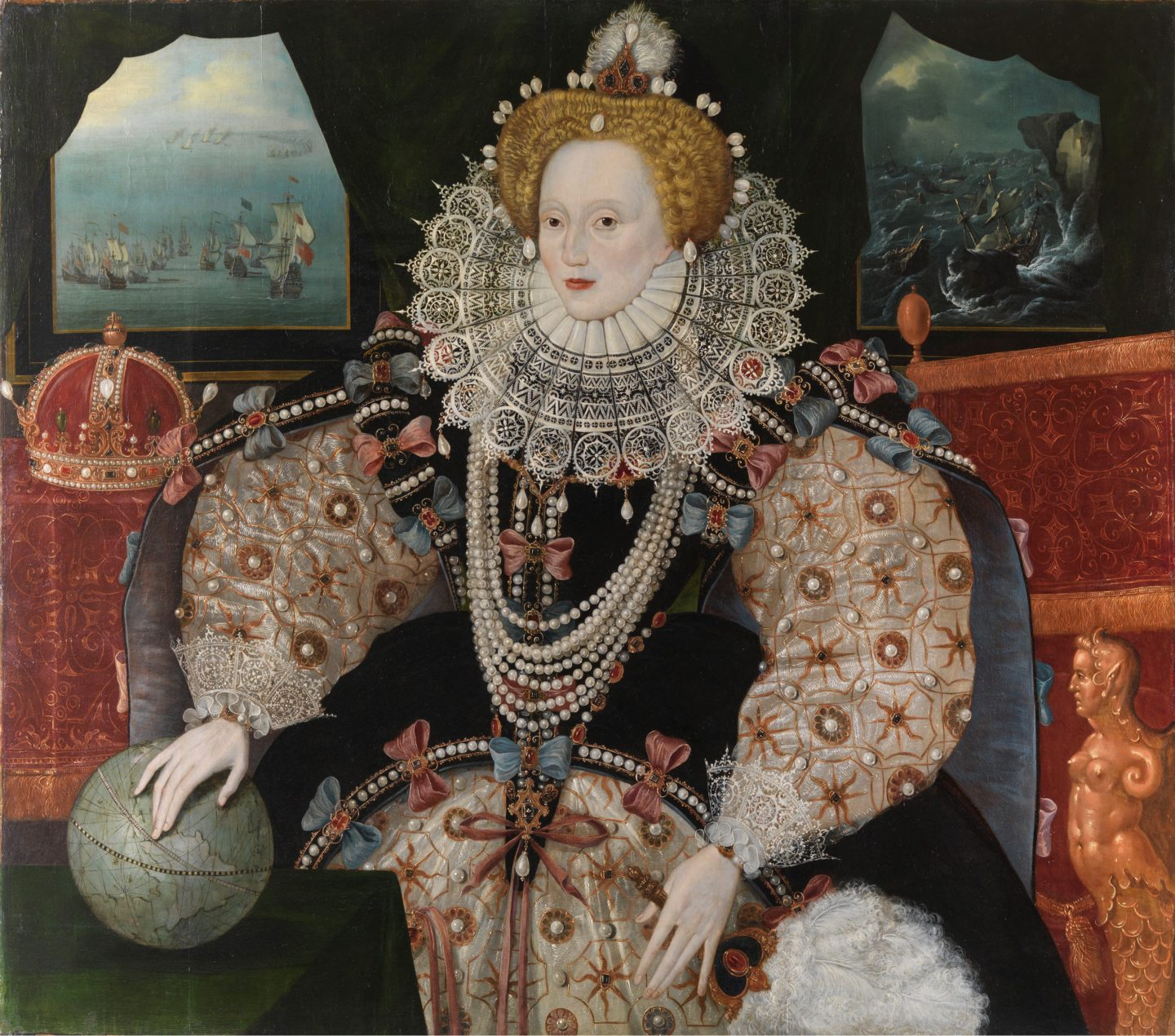 The Queen's House version of the Armada Portrait of Elizabeth I after conservation in 2016-2017.